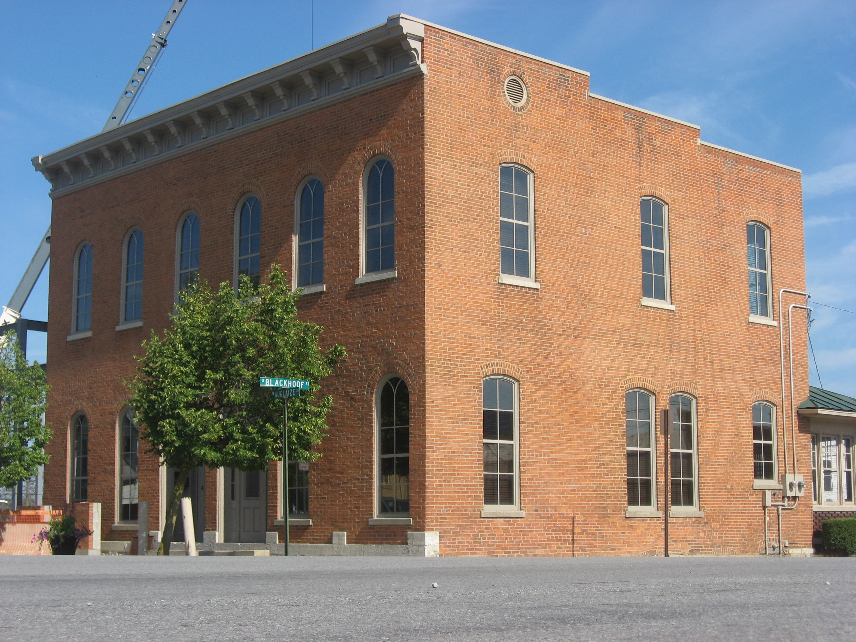 Eastern side and front of the Charles Wintzer Building, located at 202 W. Auglaize Street in downtown Wapakoneta, Ohio, United States. Built in 1872 and formerly used partially as a house, it is listed on the National Register of Historic Places. Owner's website.